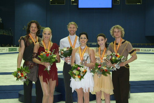 The ice dancing podium at the 2008-2009 Grand Prix of Figure Skating Final. From left: Oksana Domnina / Maxim Shabalin (2nd), Isabelle Delobel / Olivier Schoenfelder (1st), Meryl Davis / Charlie White (3rd).